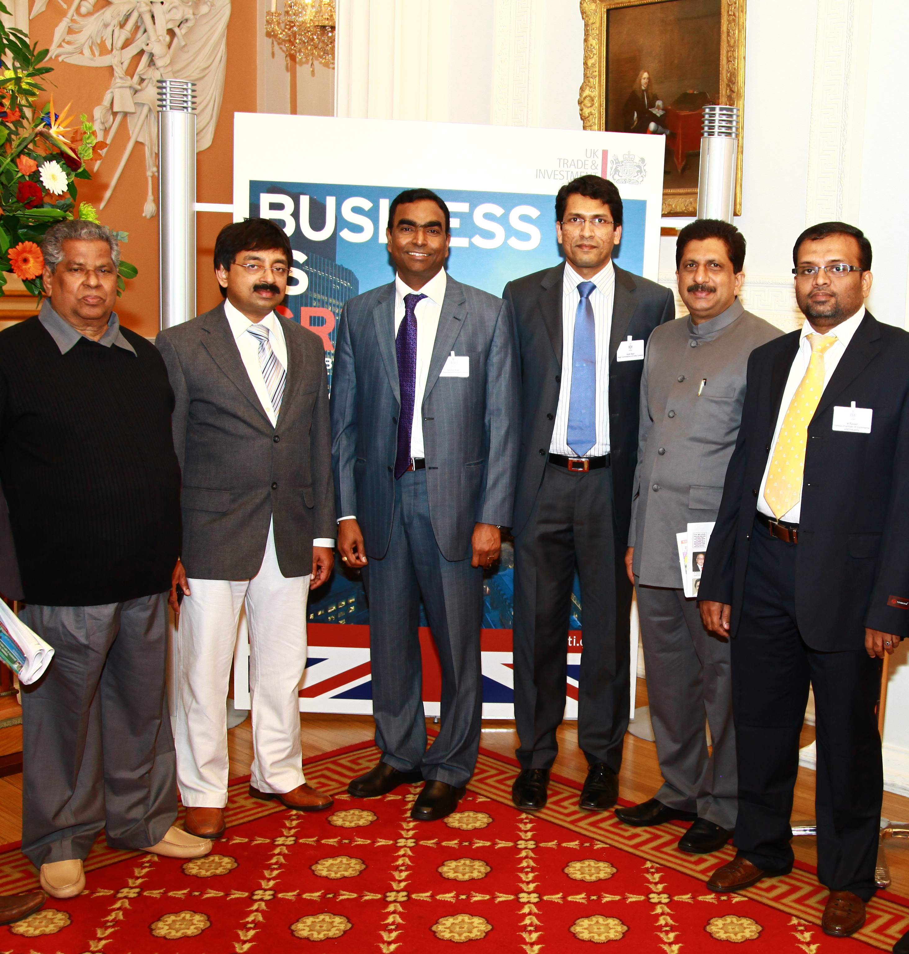 my own work, i took it